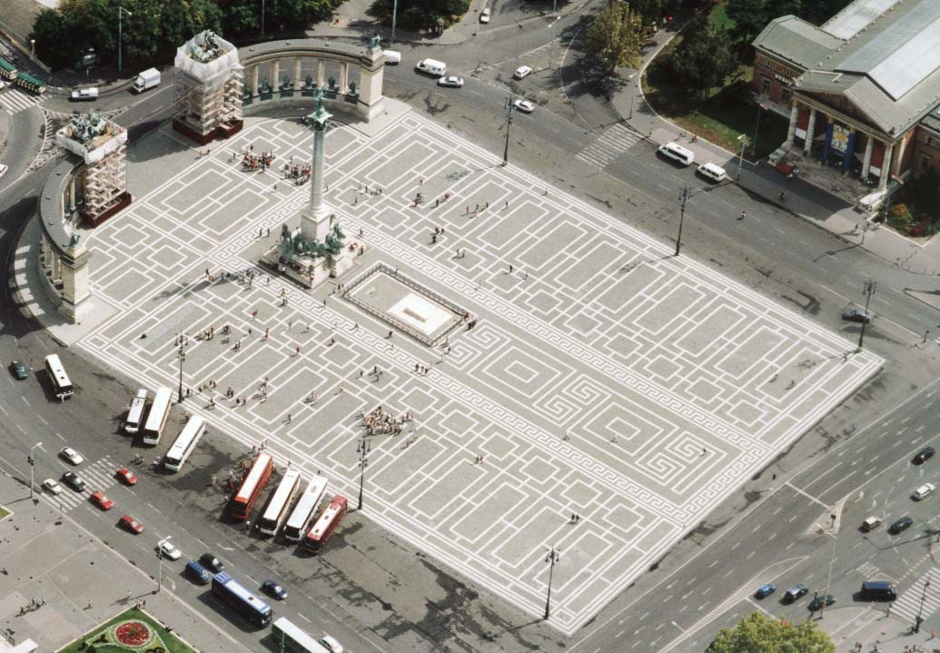 Millenium monument, Budapest, Hungary, aerialphotography